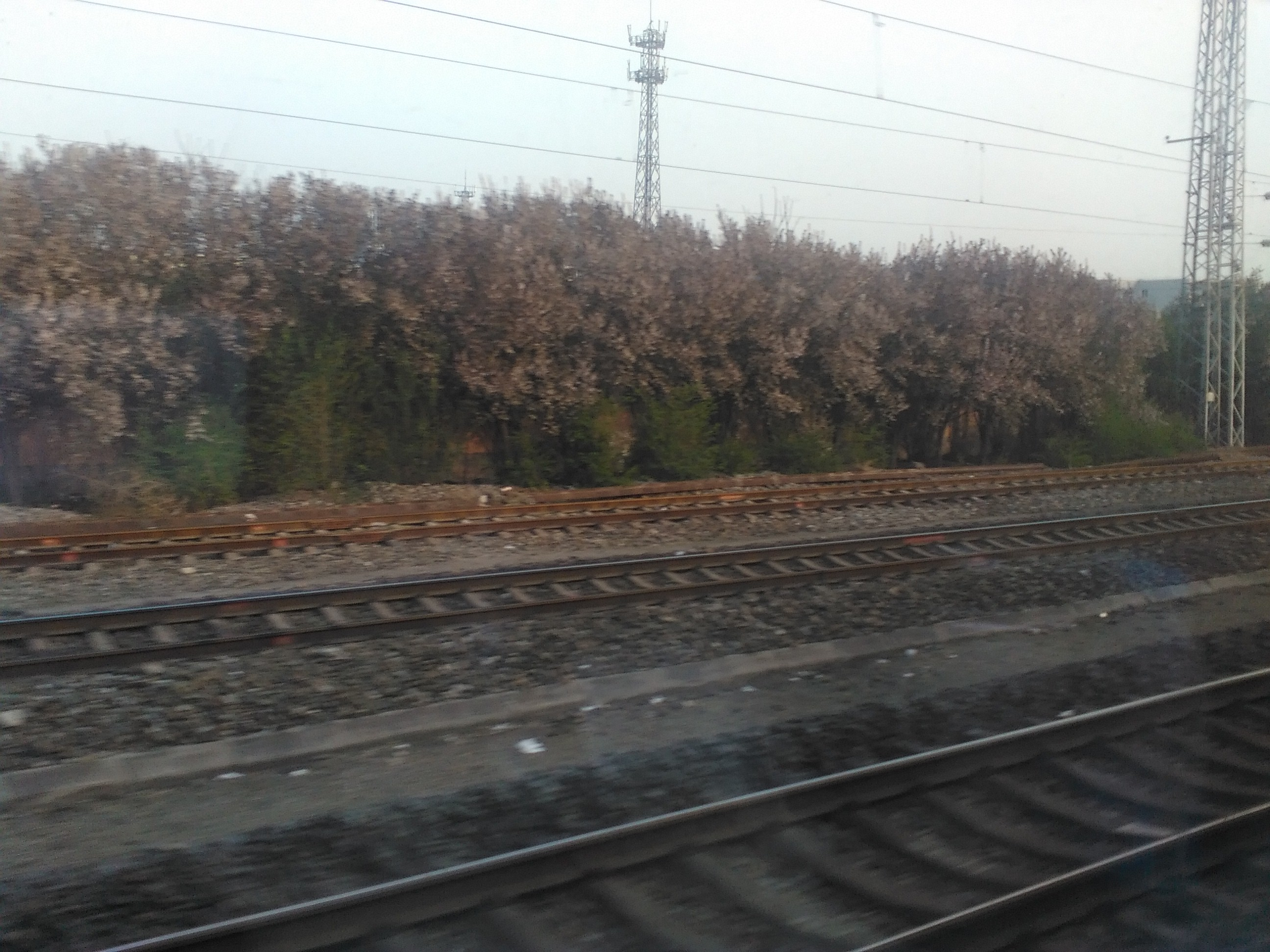 Platform of Baqiao Railway Station 中文（中国大陆）: 灞桥站站台